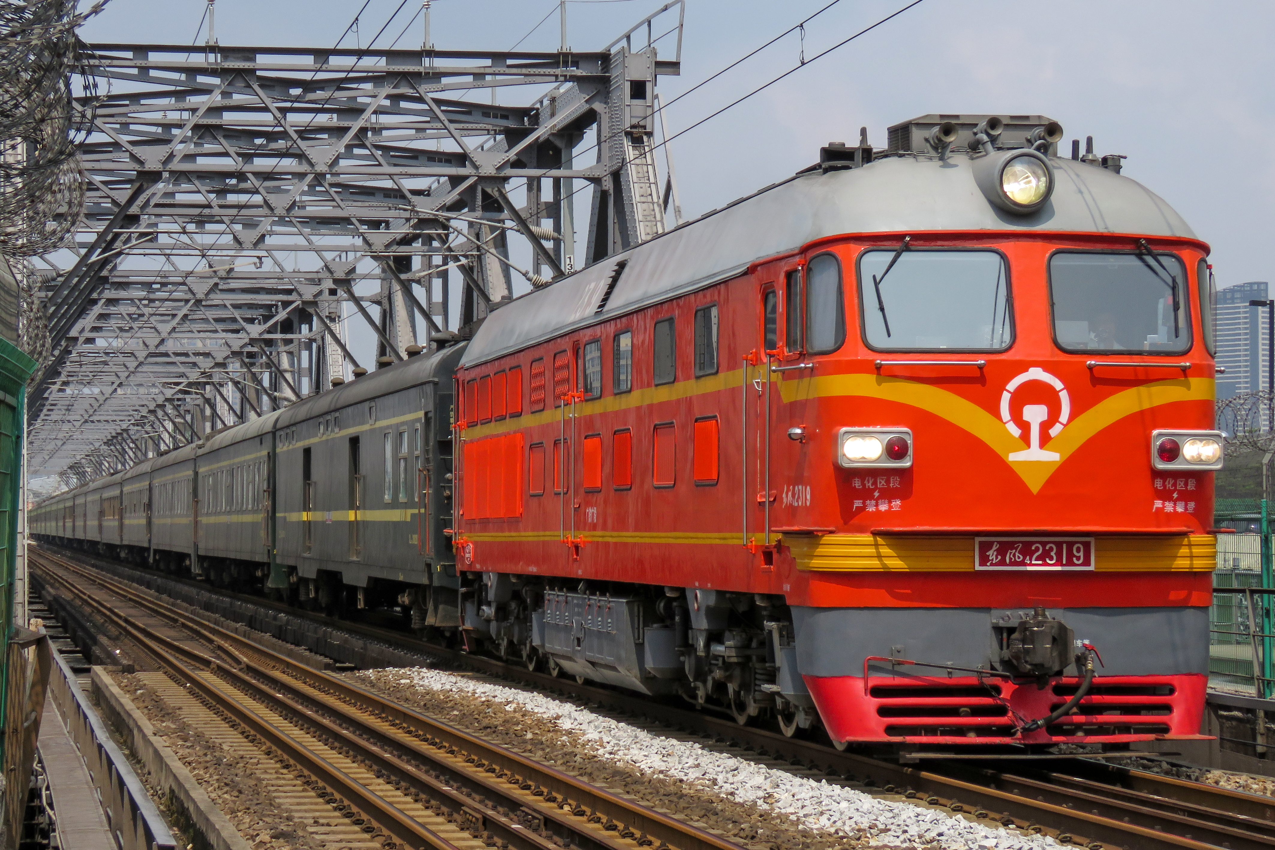 K841 to Guiyang, via Zhaoqing, Yulin and Liuzhou. What a "high saturation orange"!